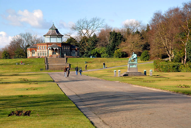 Mesnes Park Mesnes Park Pavilion and the Powell Statue